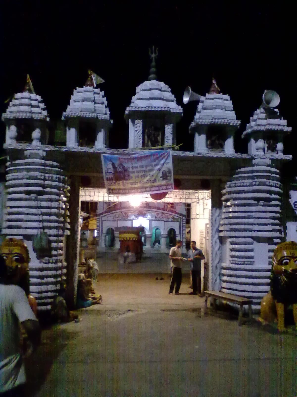 Chandaneswar temple at Odisha